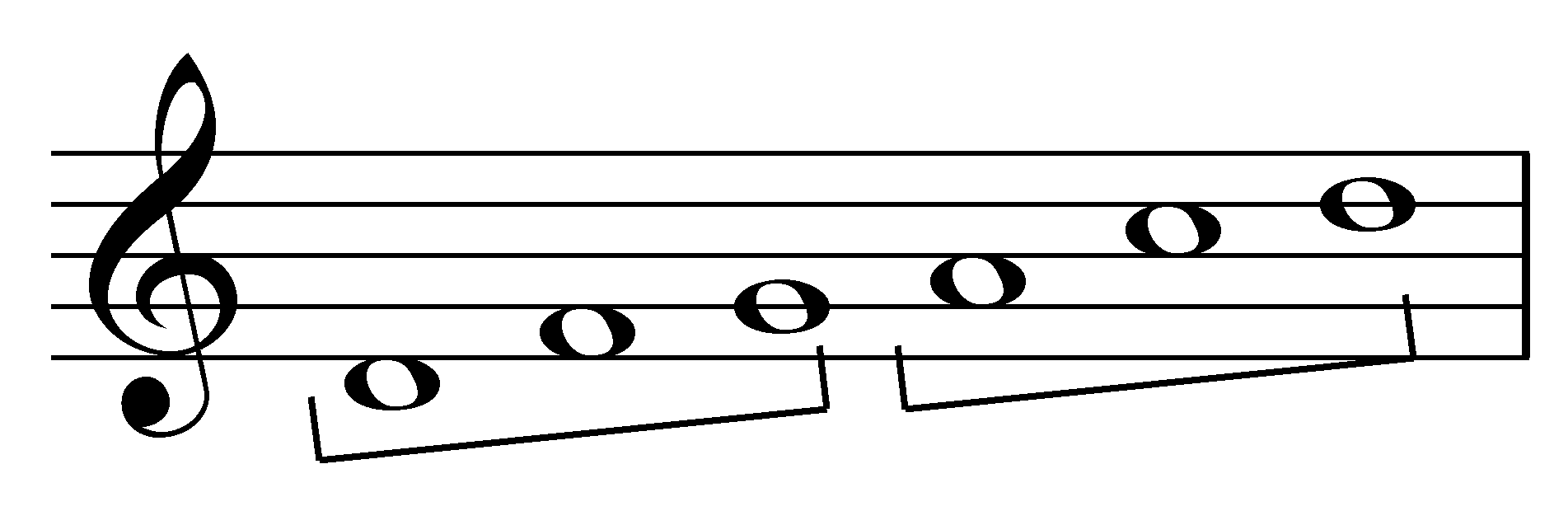 Min'yō scale on D.